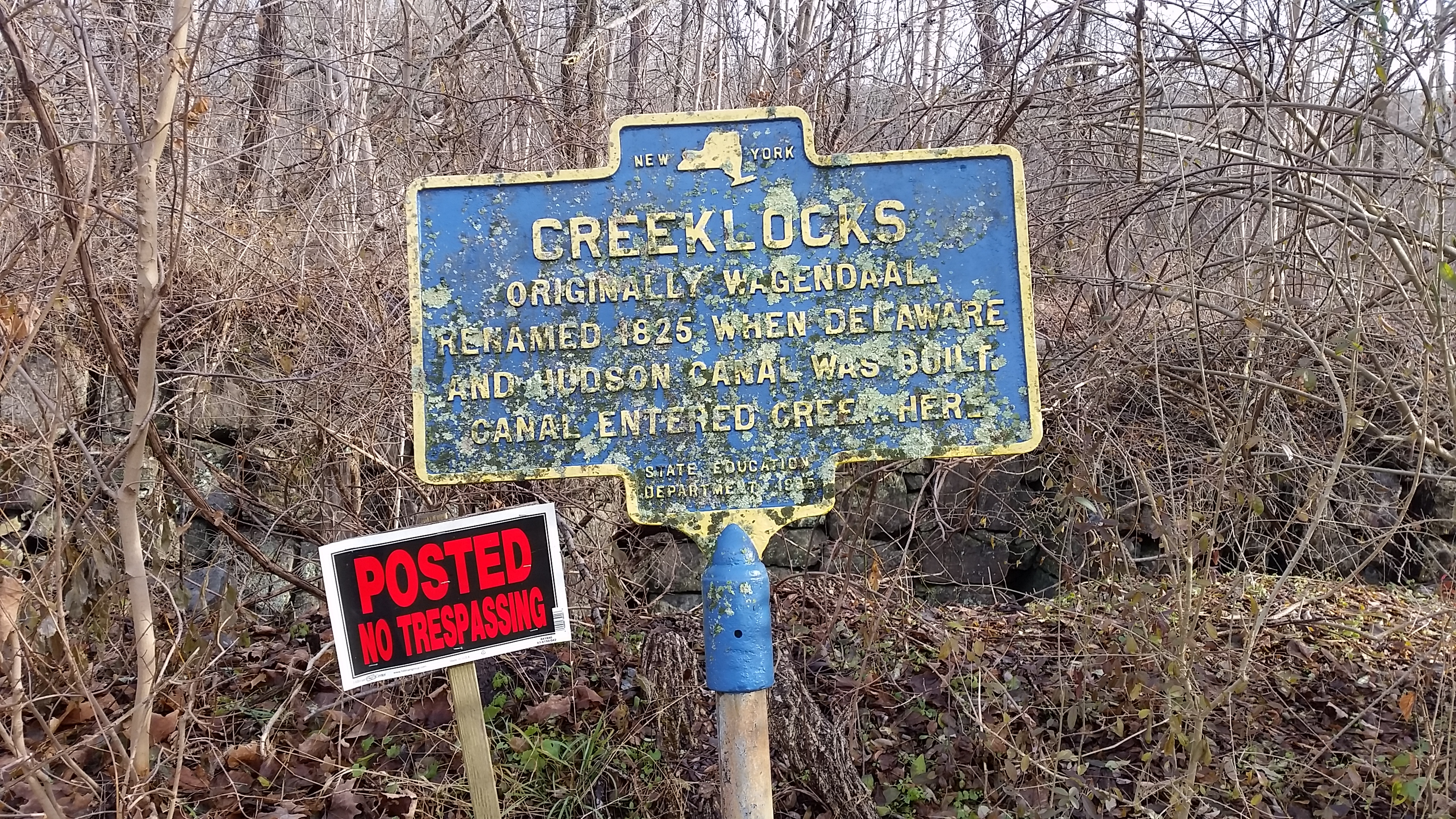 New York State historical marker for D&H Canal's Creeklocks in Rosendale, NY